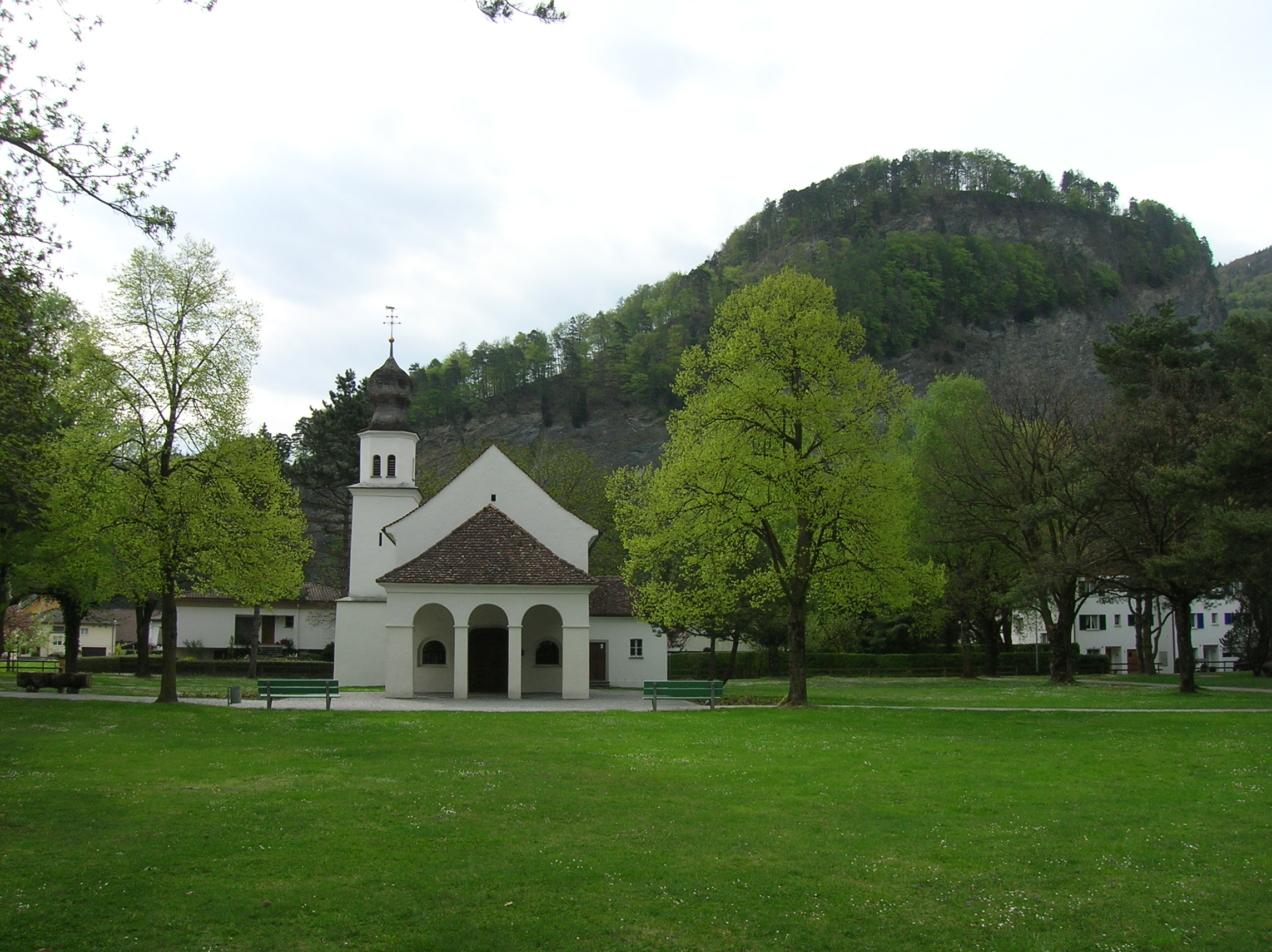 Chapel of Mariahilf in Balzers (Principality of Liechtenstein)